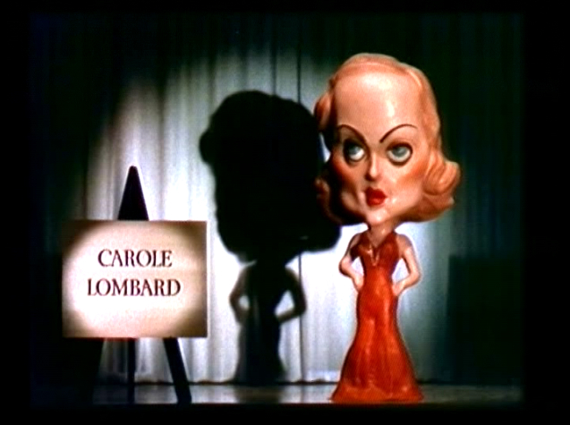 Screenshot representing Carole Lombard from the film credits for Nothing Sacred.